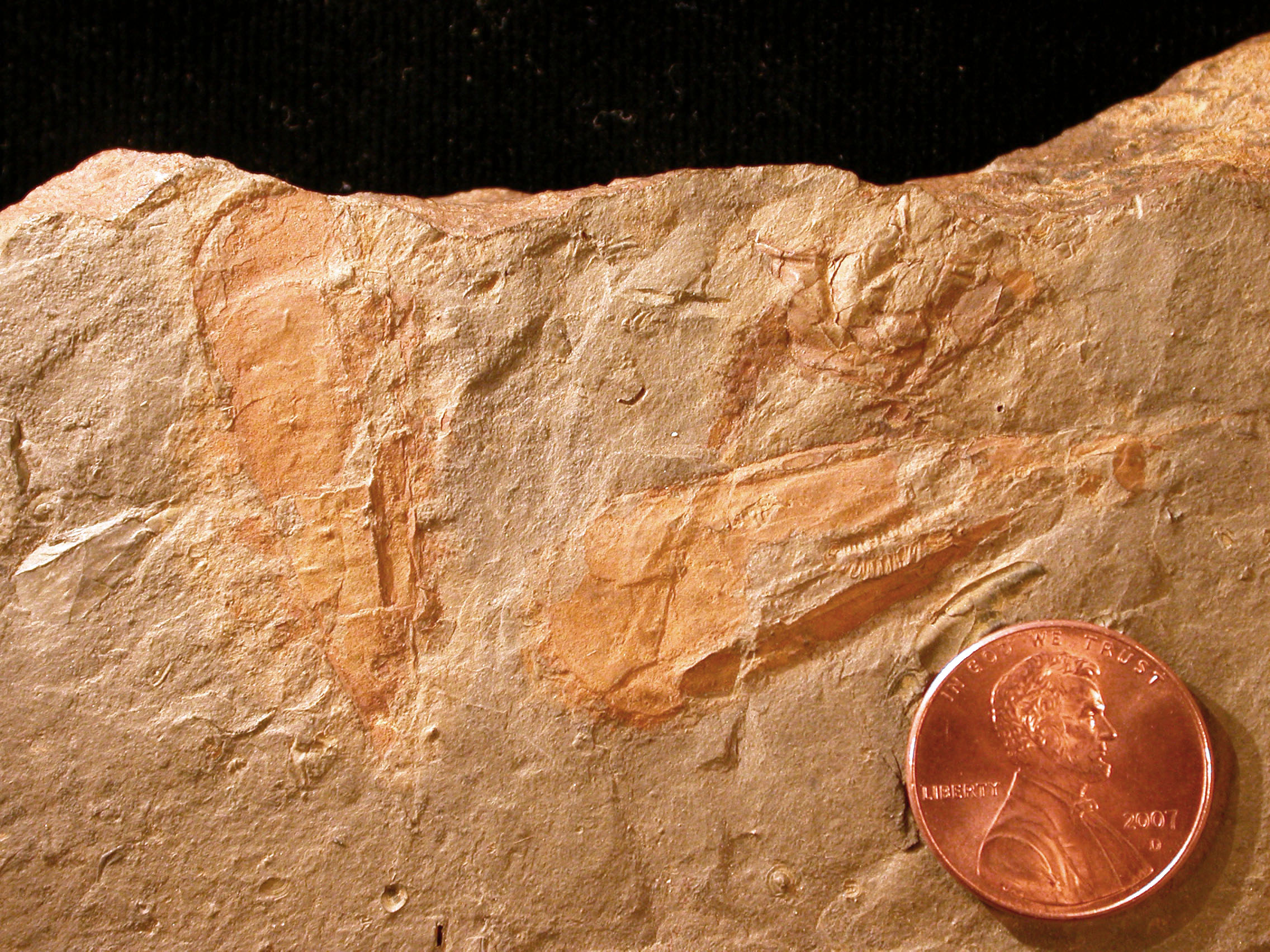 Hyolithes cerops Walcott from the Spence Shale near Paris, Idaho (Middle Cambrian).